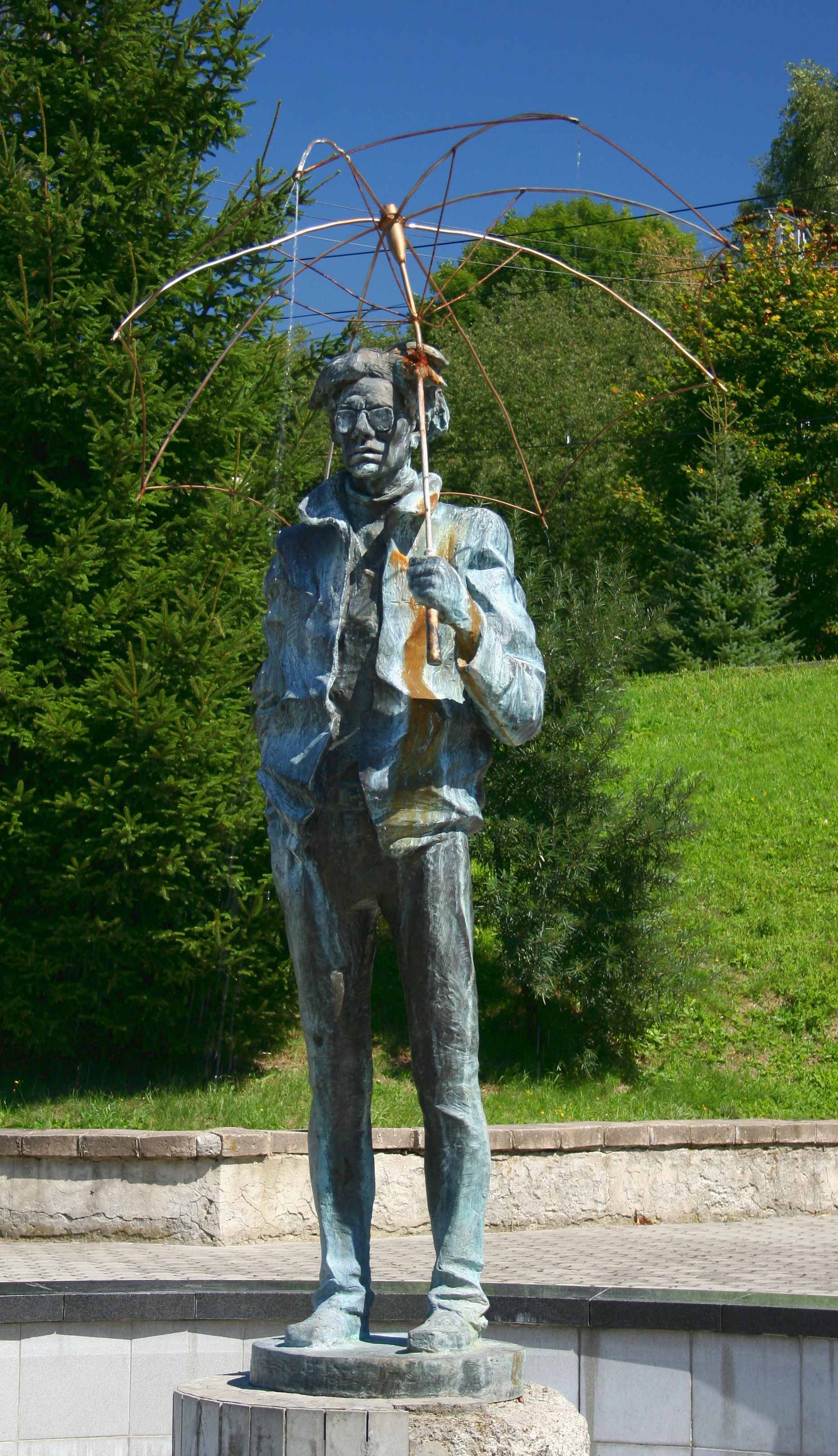 statue of Andy Warhol in Medzialborce, Slovakia